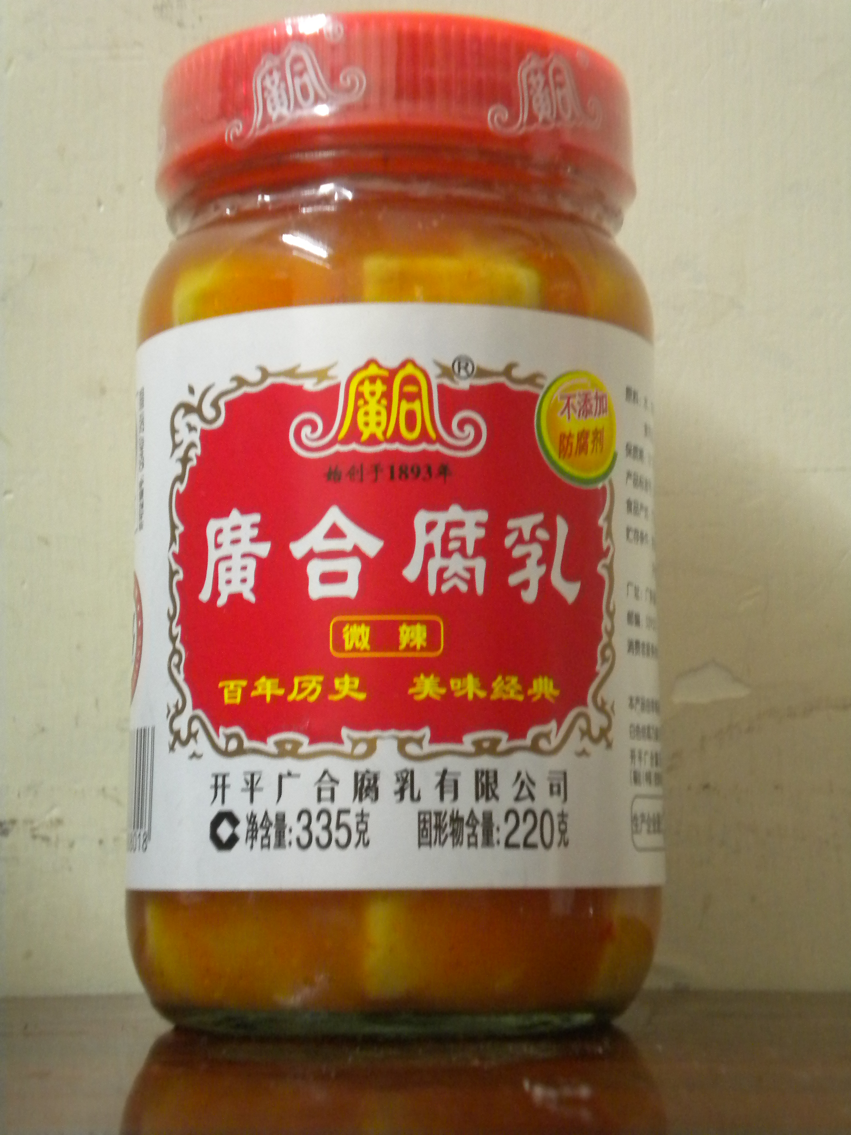 Fermented bean curd of Kaiping ,PRC